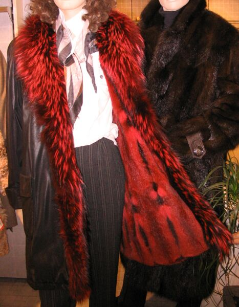 Fur, Hamster lining and silverfox, dyed. In the background a coat of musquash backs, dyed.